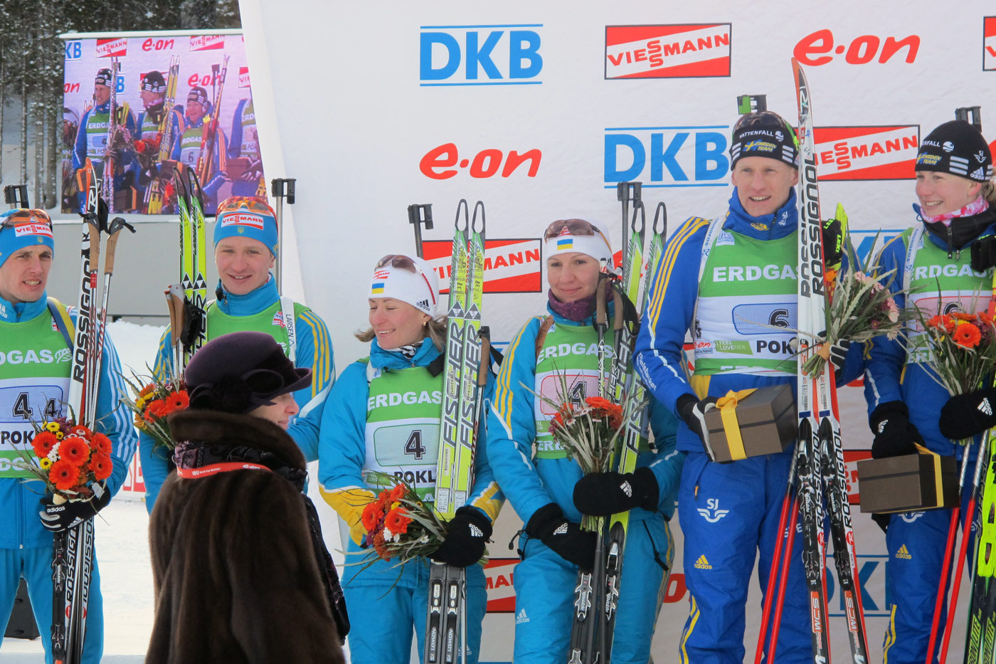 Pokljuka biathlon world cup in 2010, mixed team podium